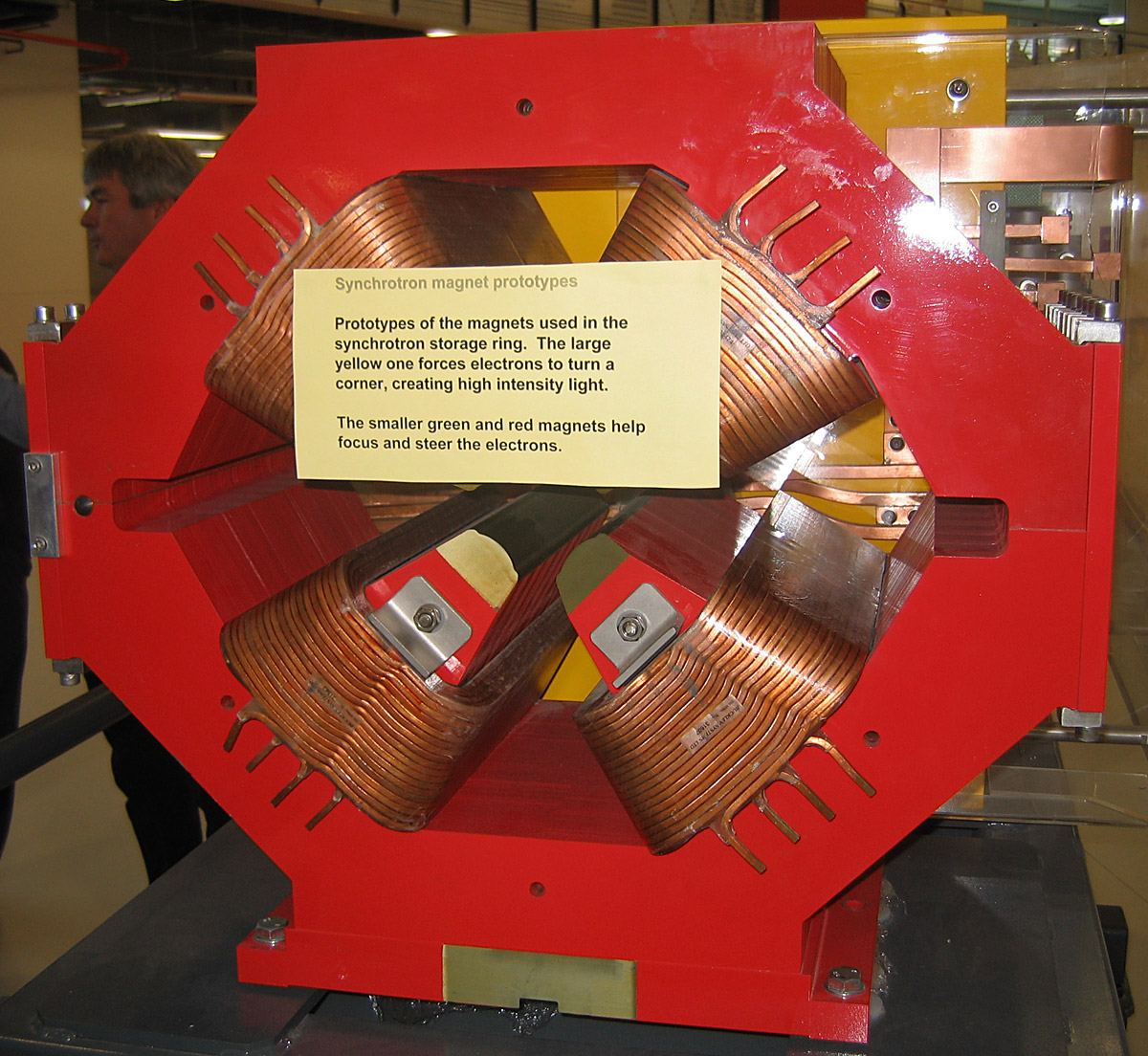 Quadrupole focussing magnet as used in the storage ring at the Australian Synchrotron, Clayton, Victoria.